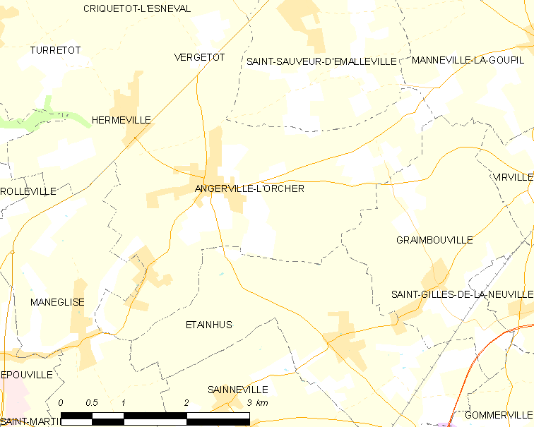 Map of French municipality Angerville-l'Orcher